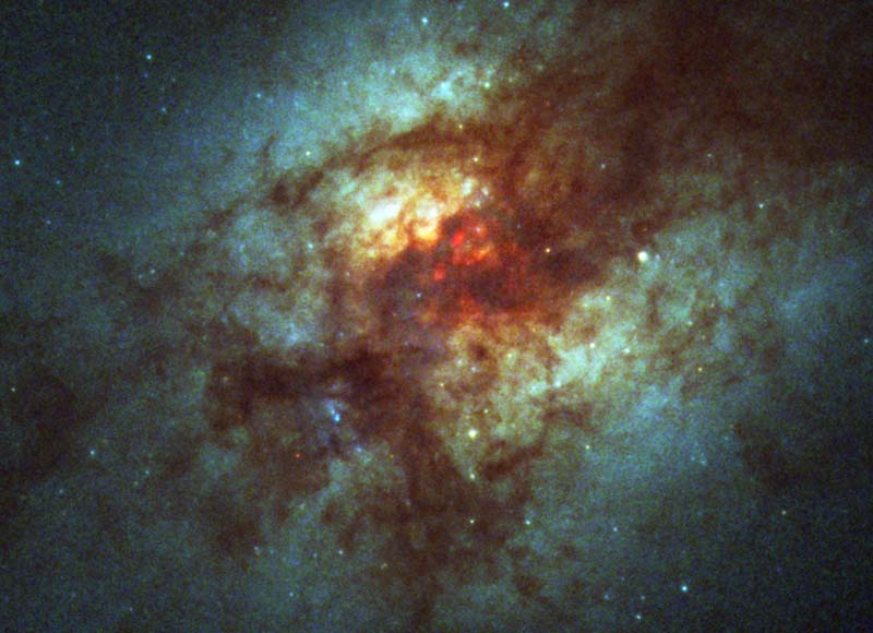 Galaxy Arp 220 as imaged by the Wide Field Planetary Camera on the Hubble Space Telescope